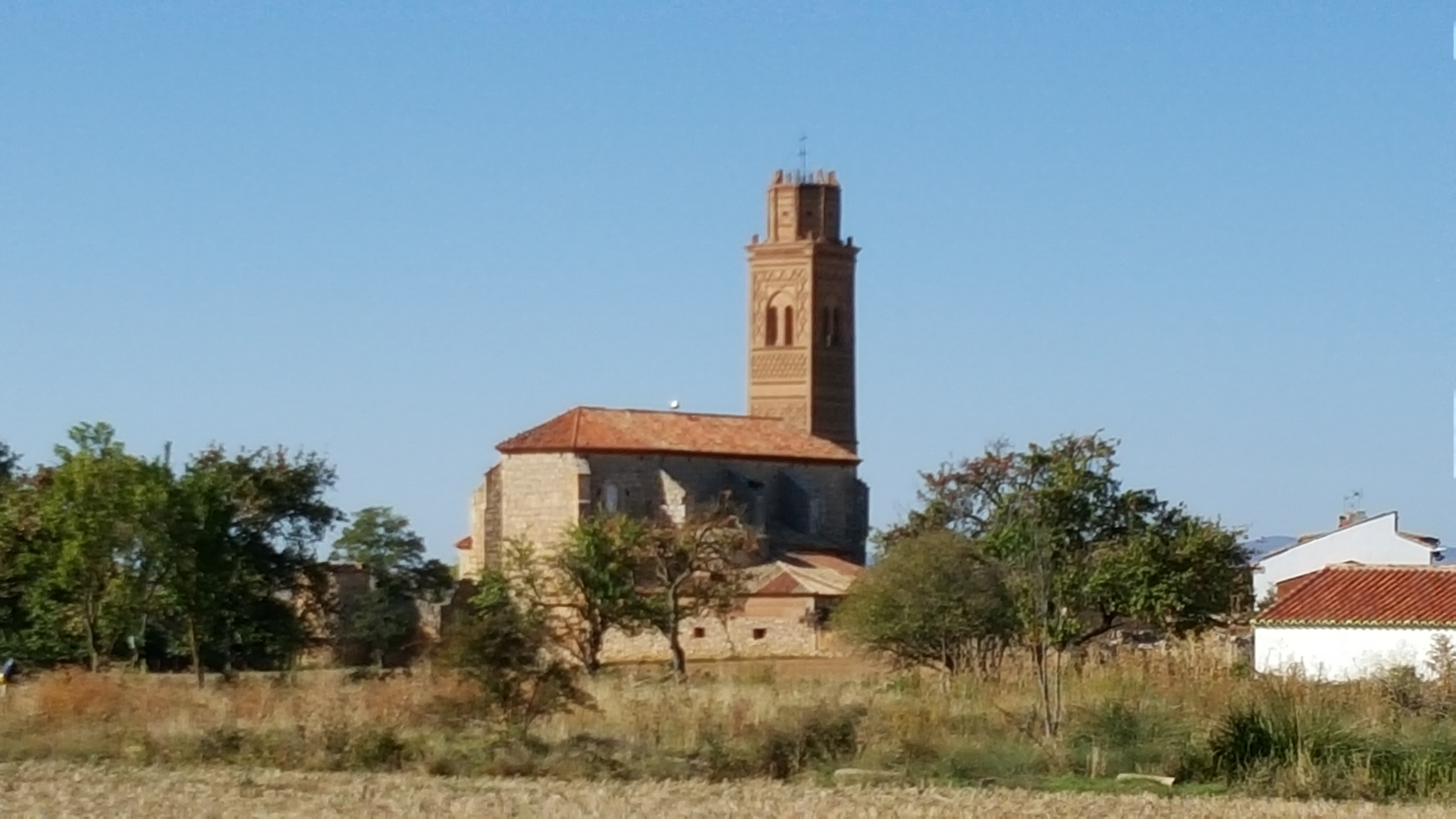 St Peter's church, Romanos, Zaragoza, Spain